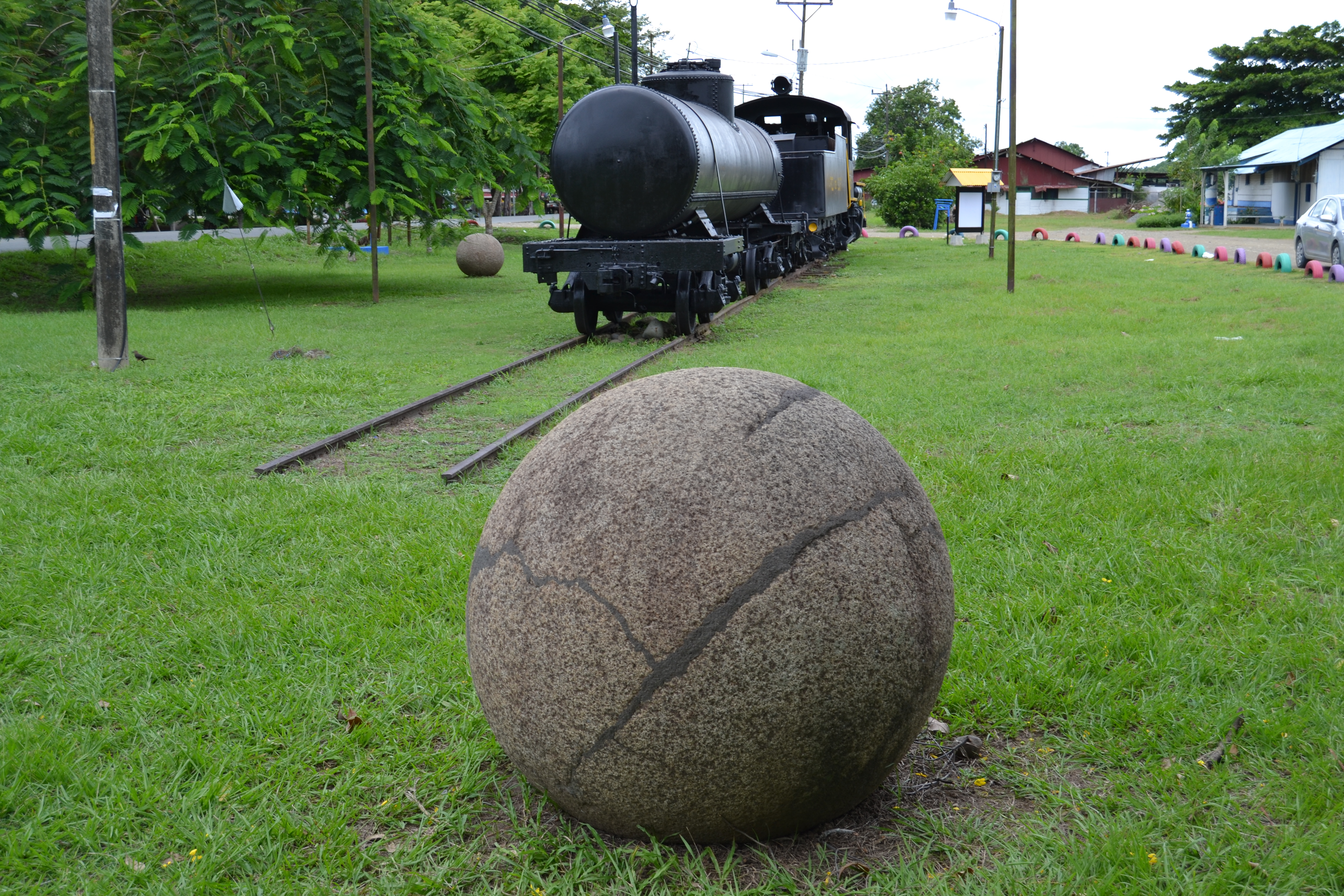 These two pre-Colombian stones balls are displayed at a small park adjacent to the airport at Palmar Sur, Costa Rica.